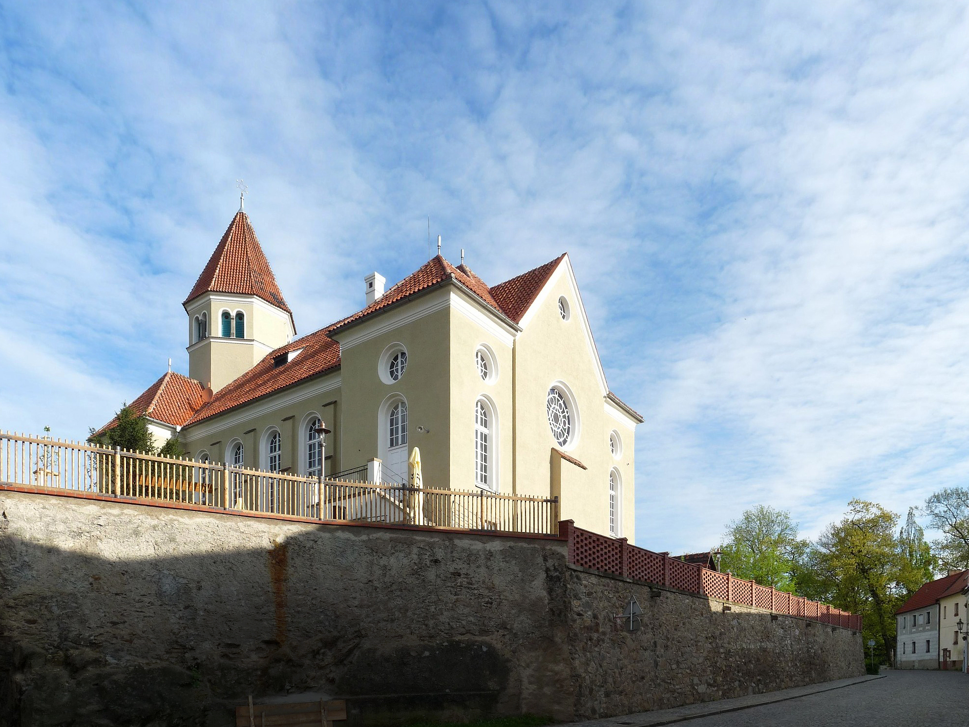 Renovated synagogue in the town of Český Krumlov, South Bohemian Region, Czech Republic, before its official reopening in May 2013.